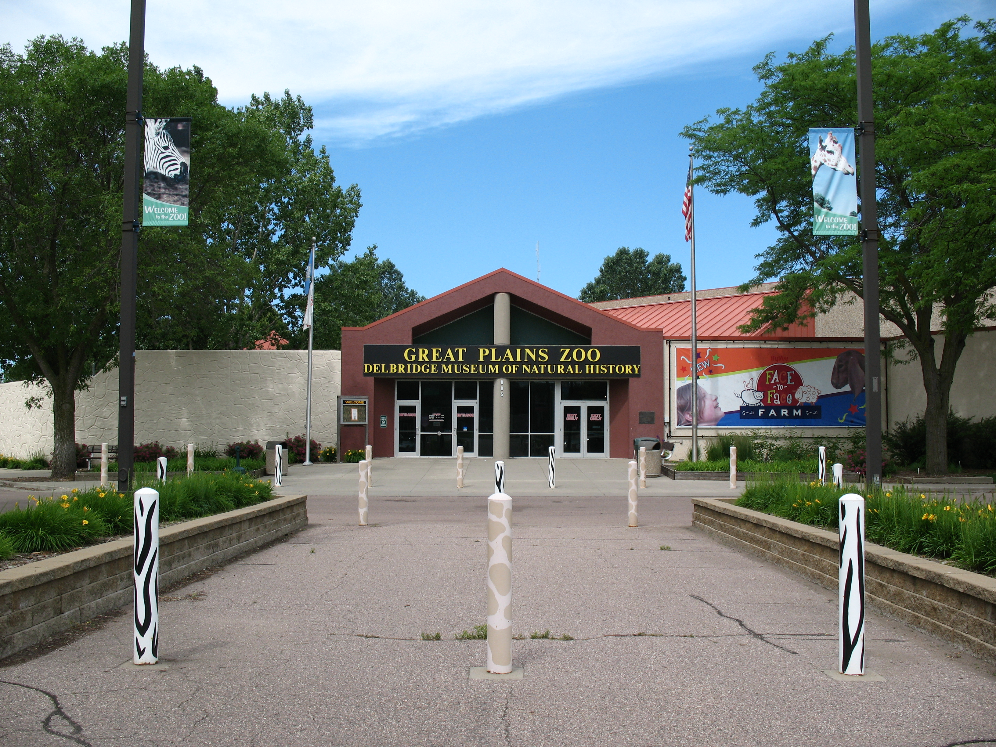 The entrance to the Great Plains Zoo in Sioux Falls, South Dakota.